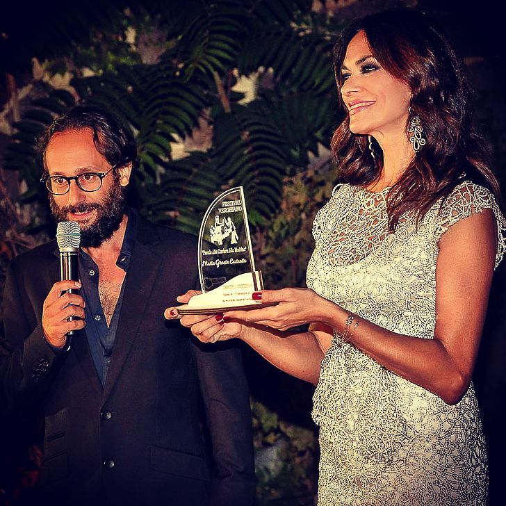 Maria Grazia Cucinotta receives a Career Award at Festival Verghiano